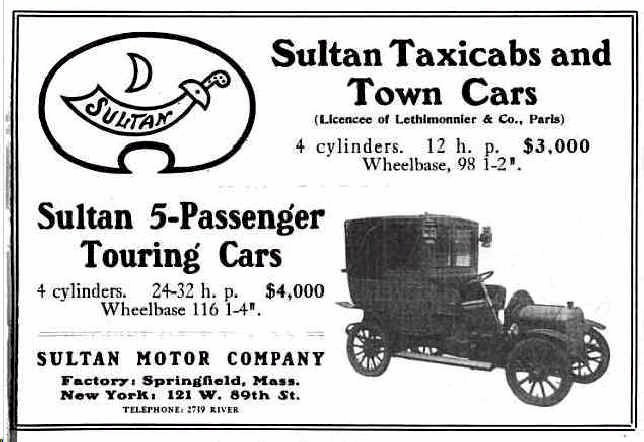 Ad for Sultan 12 HP Taxicabs and Town cars, Sultan 24/32 HP 5-passenger Touring Cars. The Sultan Motor Car Company existed from 1904-1912, and mainly built taxi cabs. Neither 12 HP nor 24/32 HP models were built after 1907, so this ad was published ca. 1904-1907.